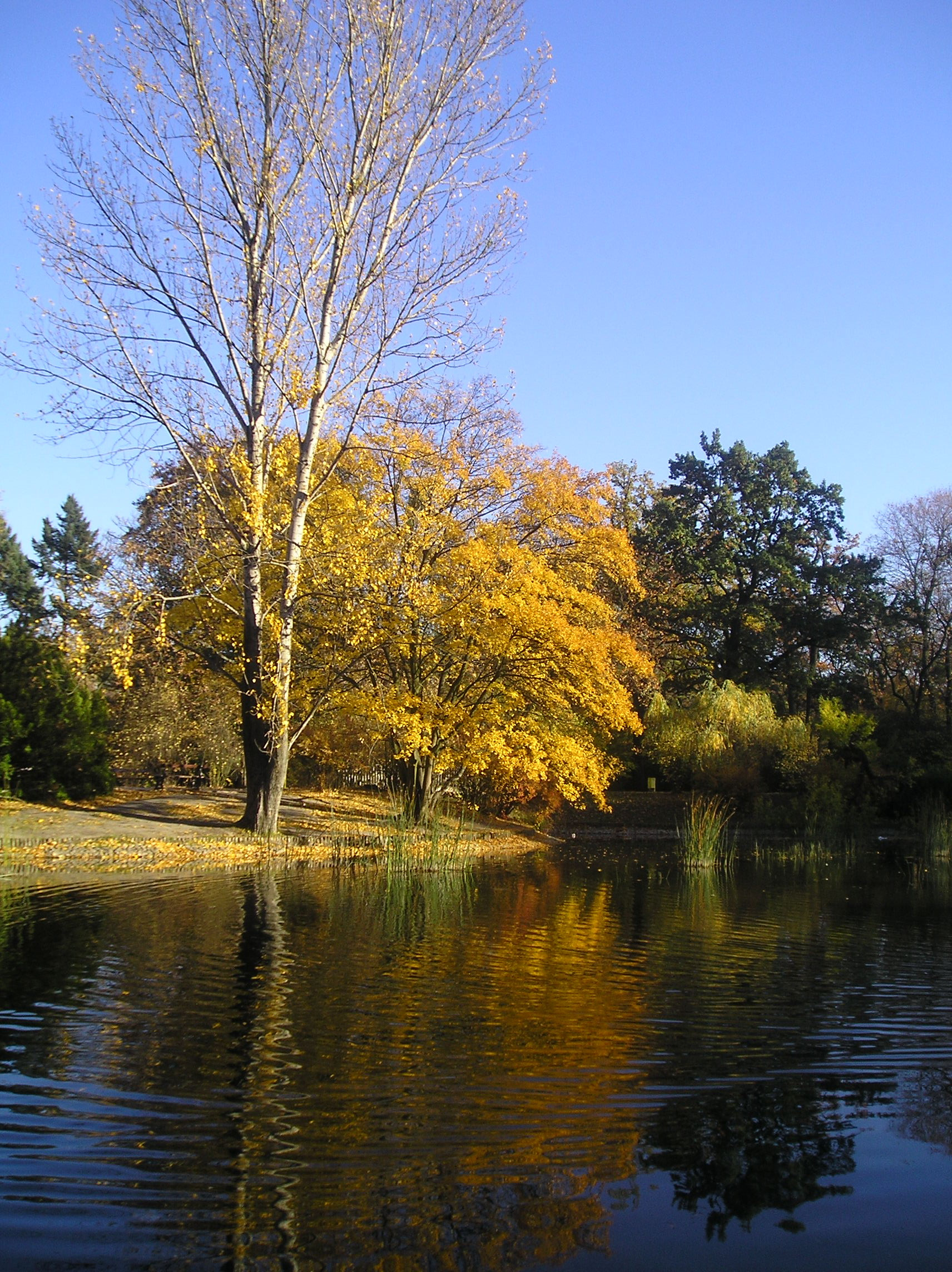 Public garden in Łódź